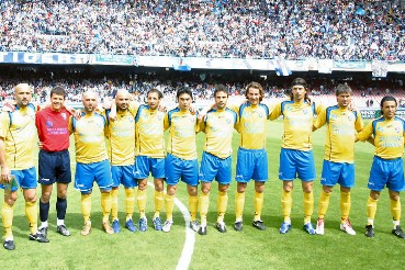 Napoli, San Paolo Stadium, April 30th, 2006. Napoli - Frosinone 1-1, Frosinone line-up.